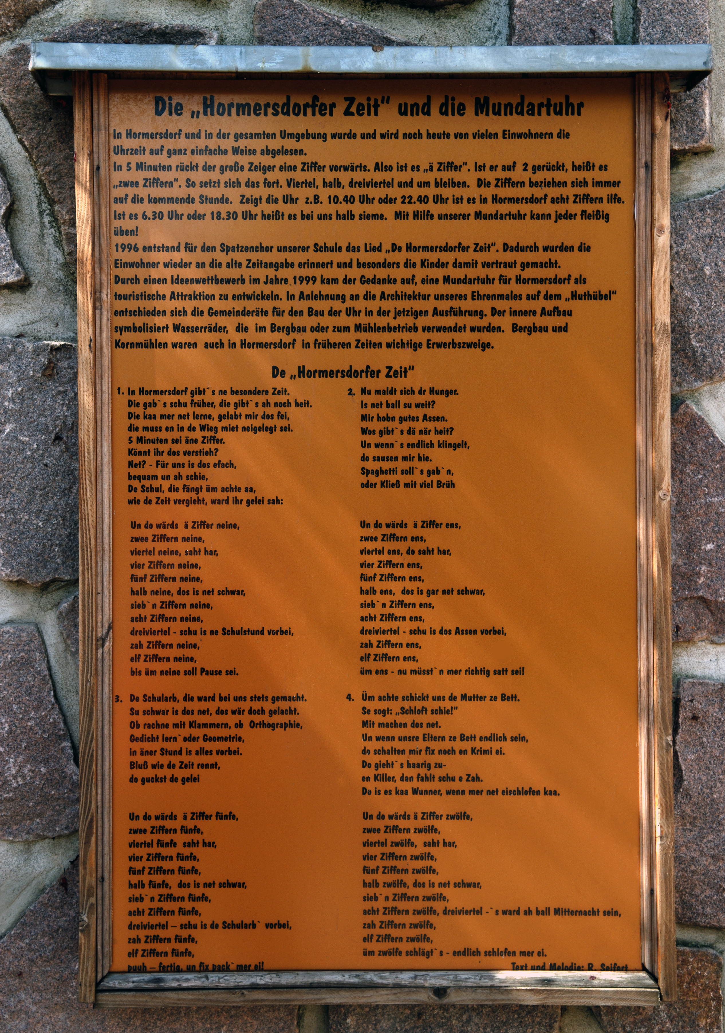 This image shows the information board for the Hormersdorf Erzgebirgisch dialect clock in Hormersdorf in the Ore Mountains.